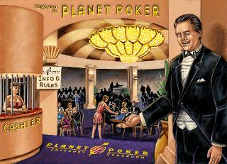 Planet Poker lobby. The image was used in the Planet Poker software as the "lobby" of the software. From here you could go to the cardroom to play poker, go to the cashier and deposit/withdraw money, obtain help, look at hand histories etc.